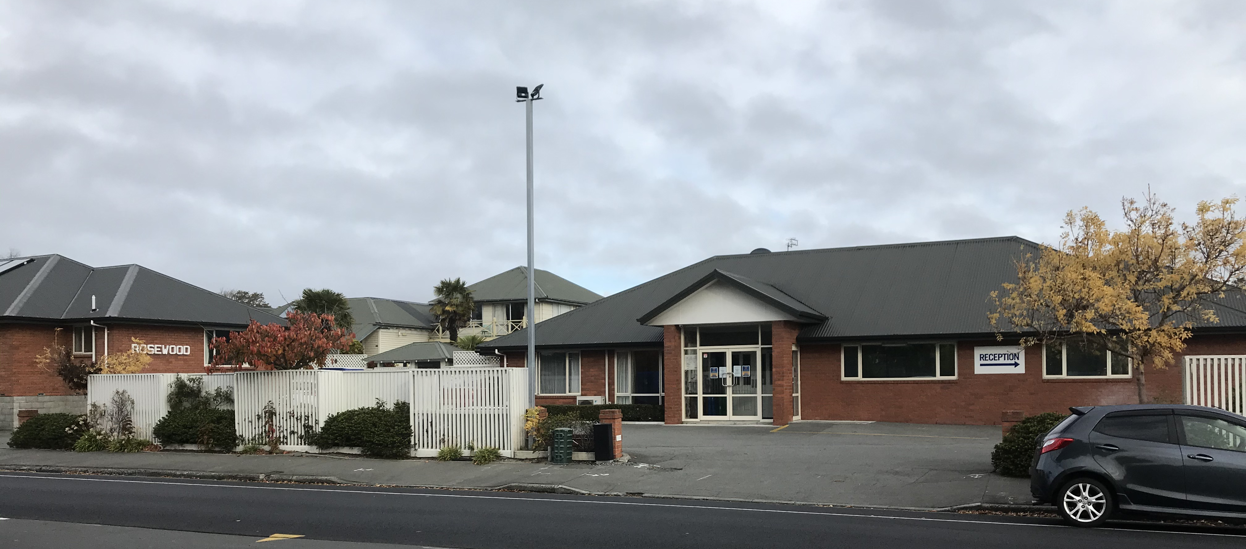 Rosewood Resthome in April 2020